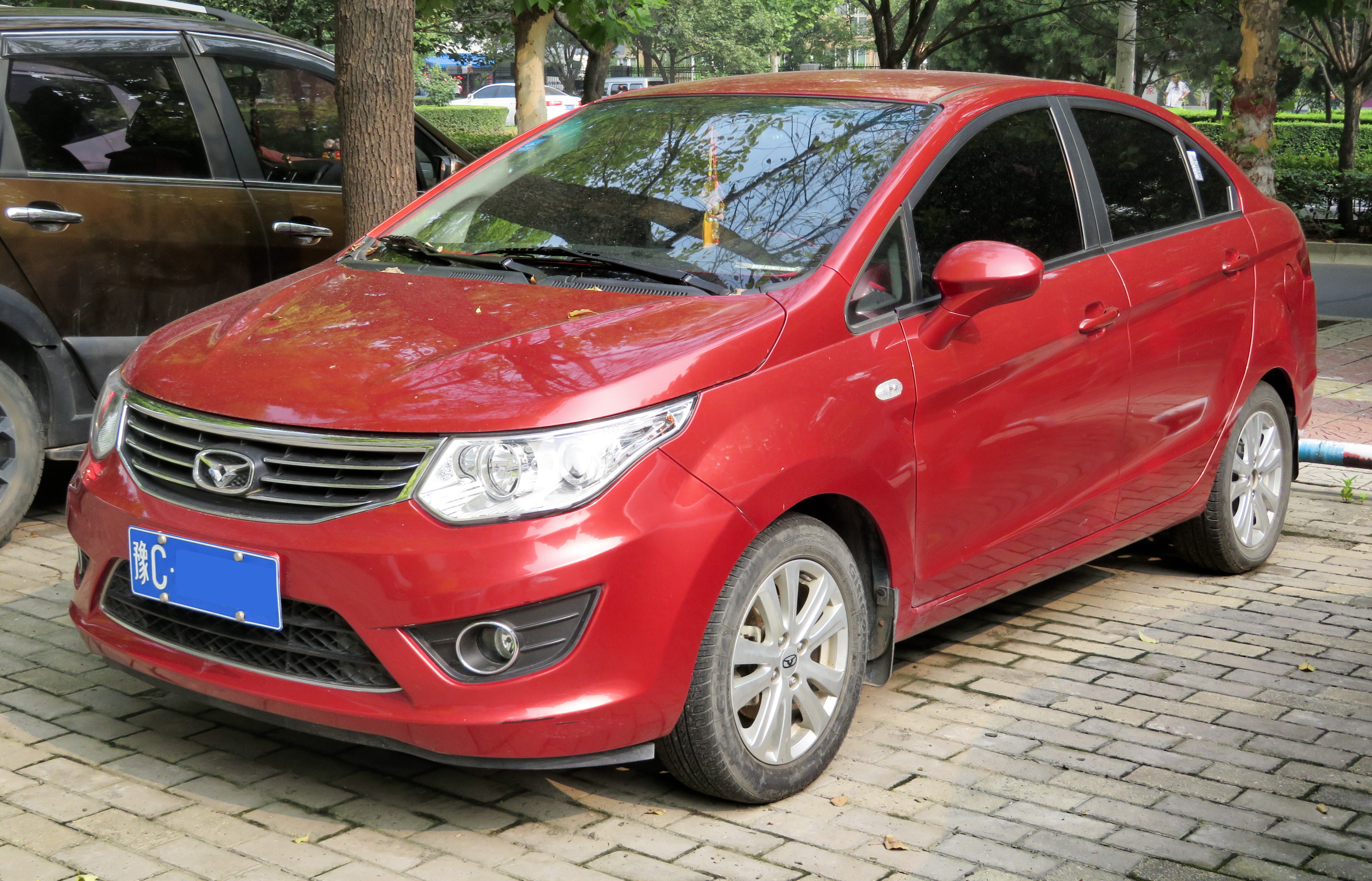 A 2016 Chery Cowin C3 sedan photographed in Luolong District, Luoyang, Henan province, China